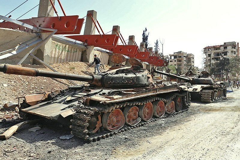 On Sunday, February 25, 2018, the Syrian Arab Army launched a massive campaign to liberate the eastern plutonium on the outskirts of Damascus, and eventually on April 25th, April 25, April 14, 2018, a proclamation of freedom and full cleansing of insurgents was announced.